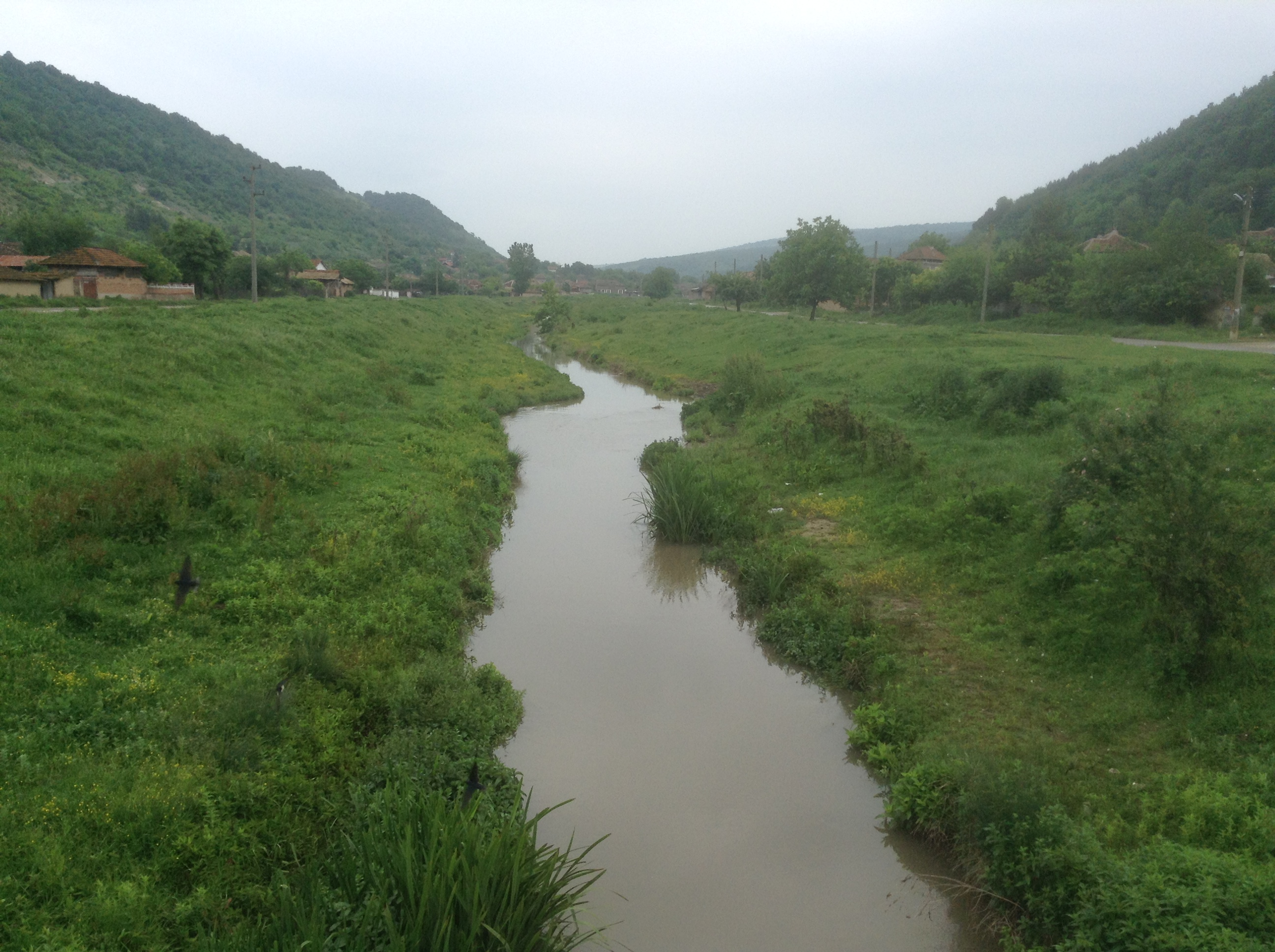 Mali Lom river in village of Svalenik, Bulgaria.